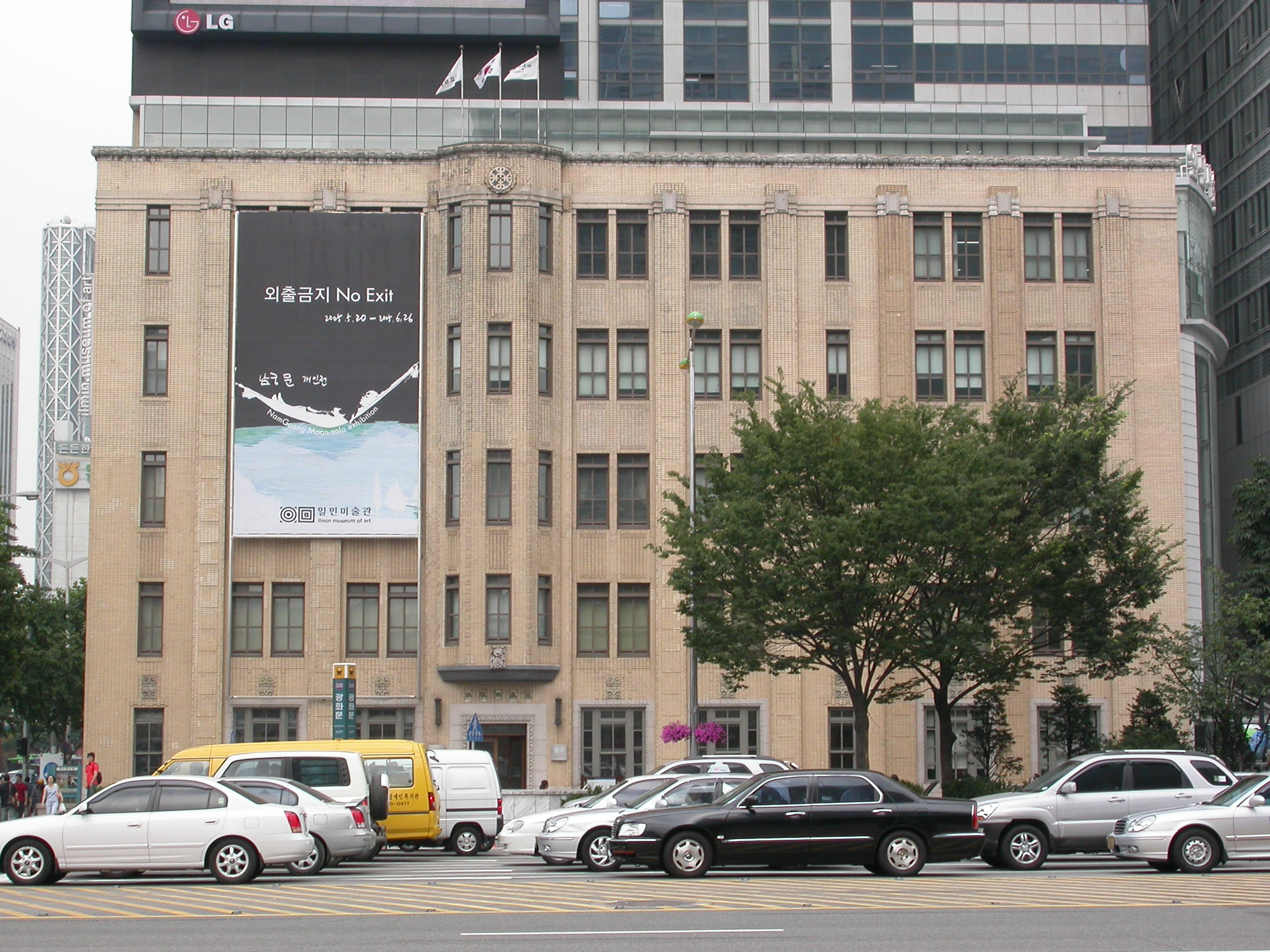 Ilmin Museum of Art (Former Dong-a Ilbo newspaper building)